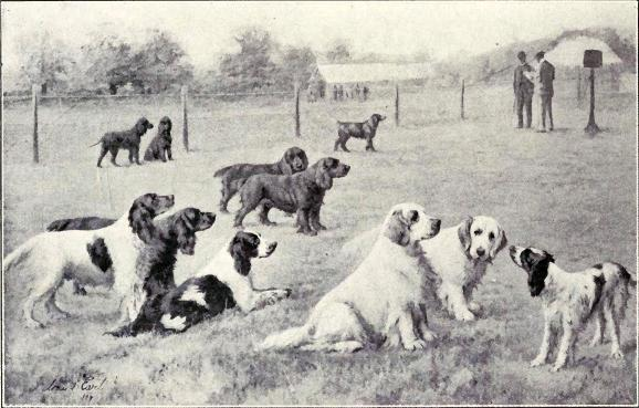 Group of Gun Dogs from 1915